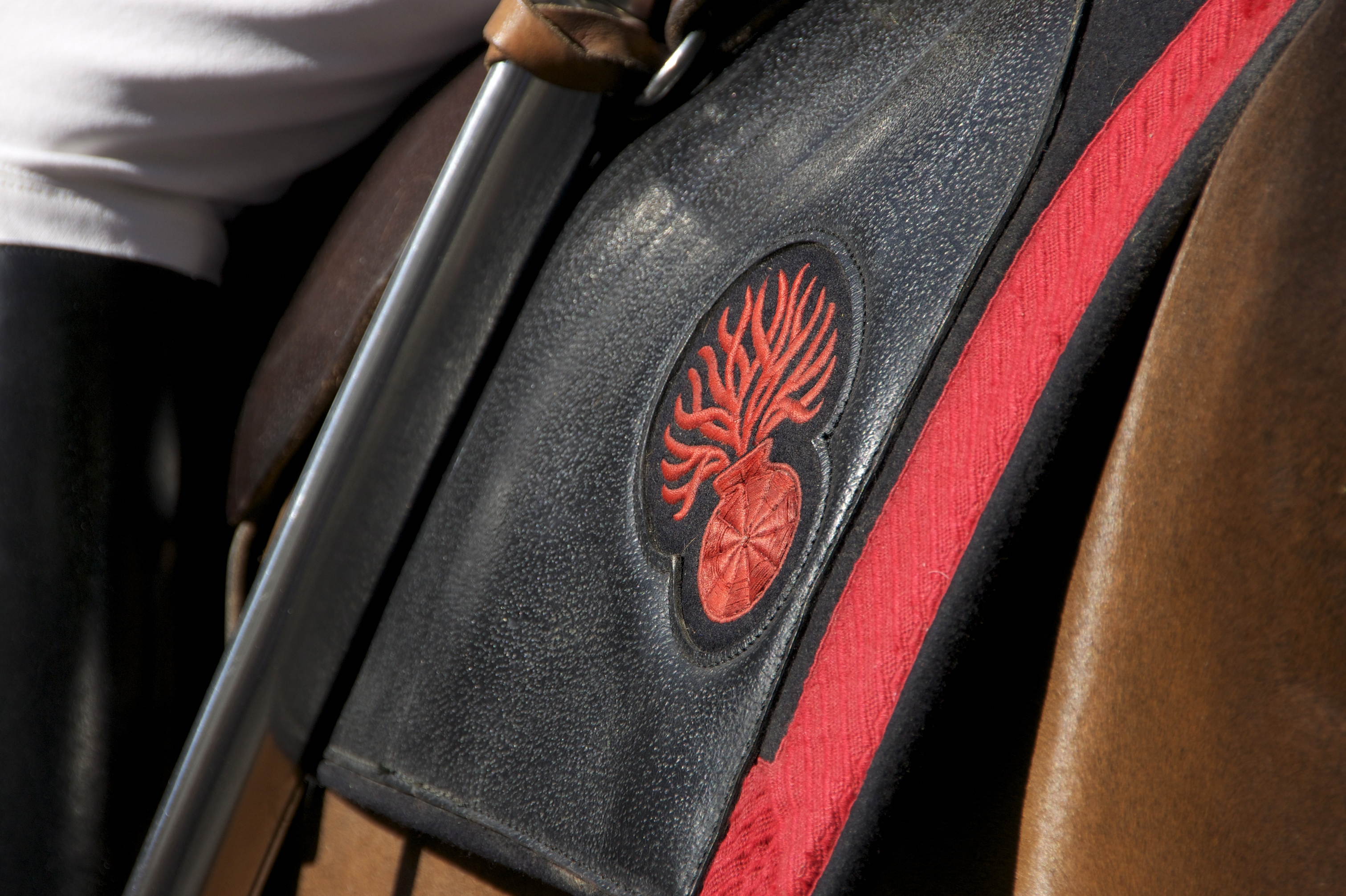 Embroidered grenade on the saddlecloth of a cavalryman of the Cavalry Regiment of the french Garde Républicaine. Bastille Day 2012 military parade, Paris.